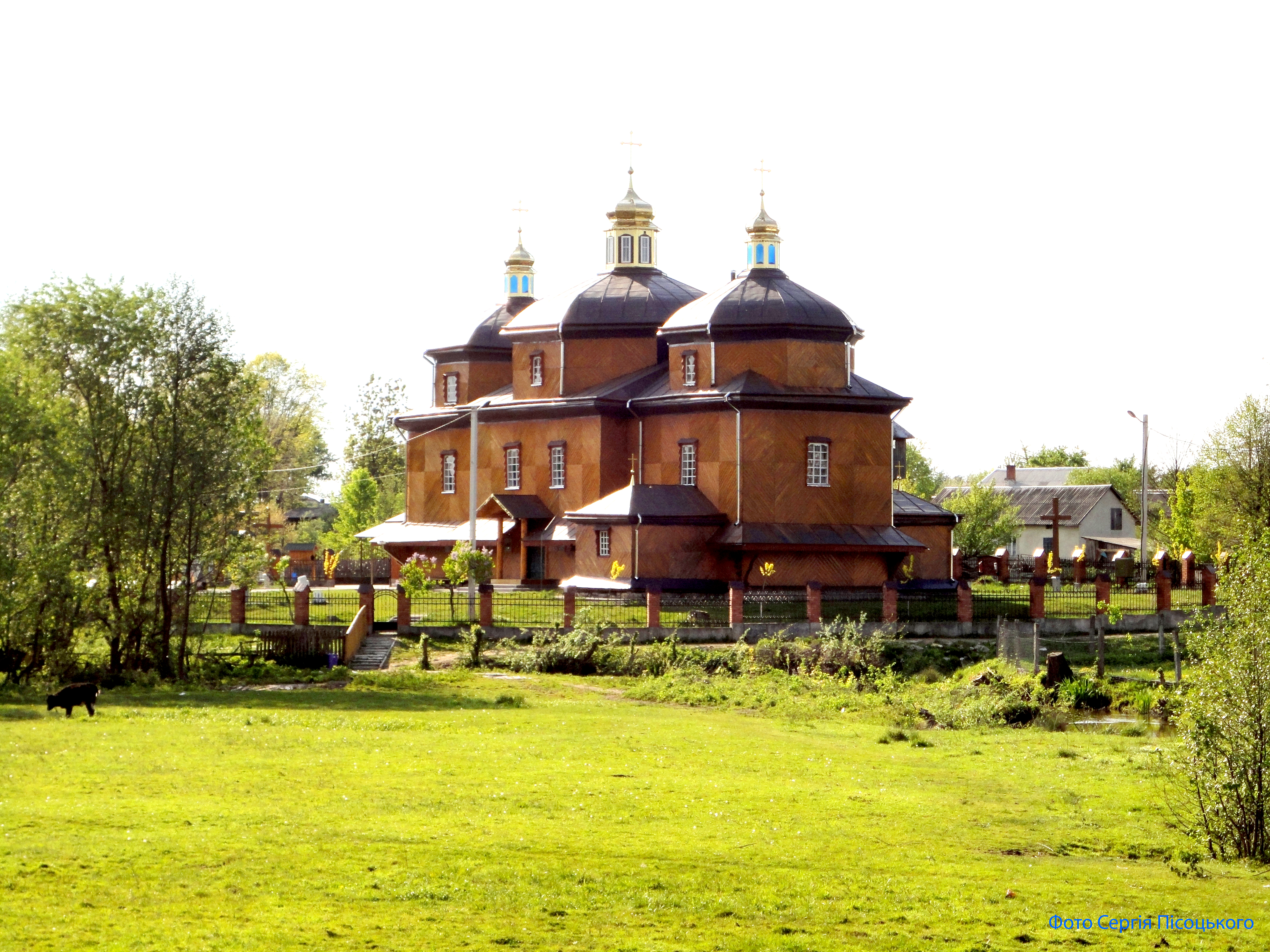 verb-cerkva.JPG